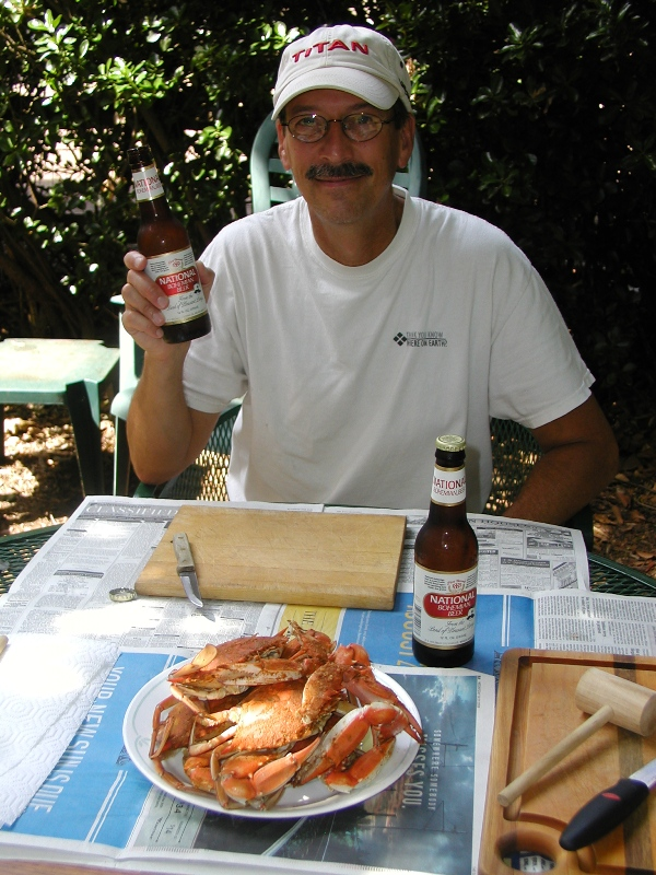 Steamed crabs and National Bohemian